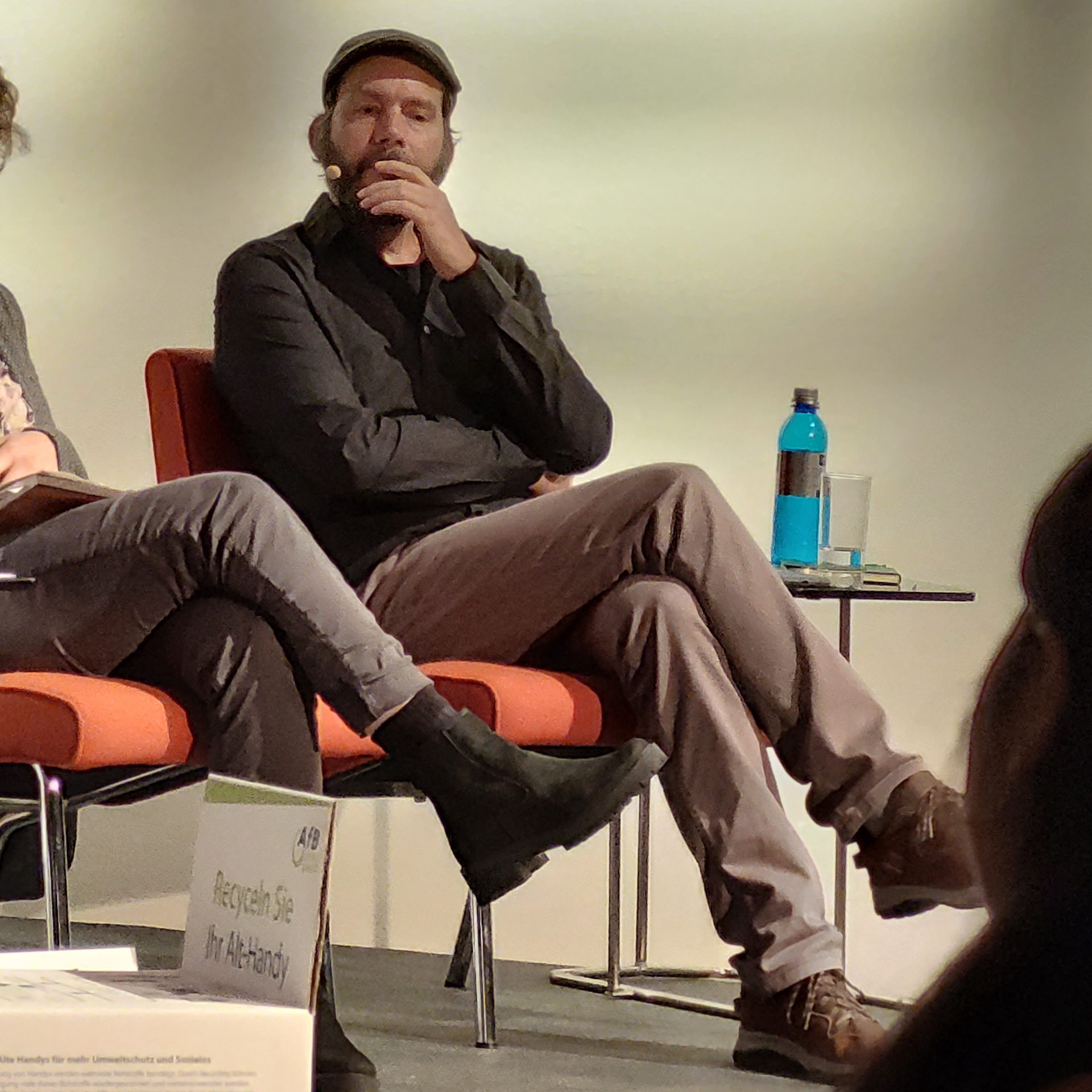 Forum Entwicklung - Smartphones ohne Schattenseite, Frankfurter Rundschau, hr-info, Gesellschaft für Internationale Zusammenarbeit